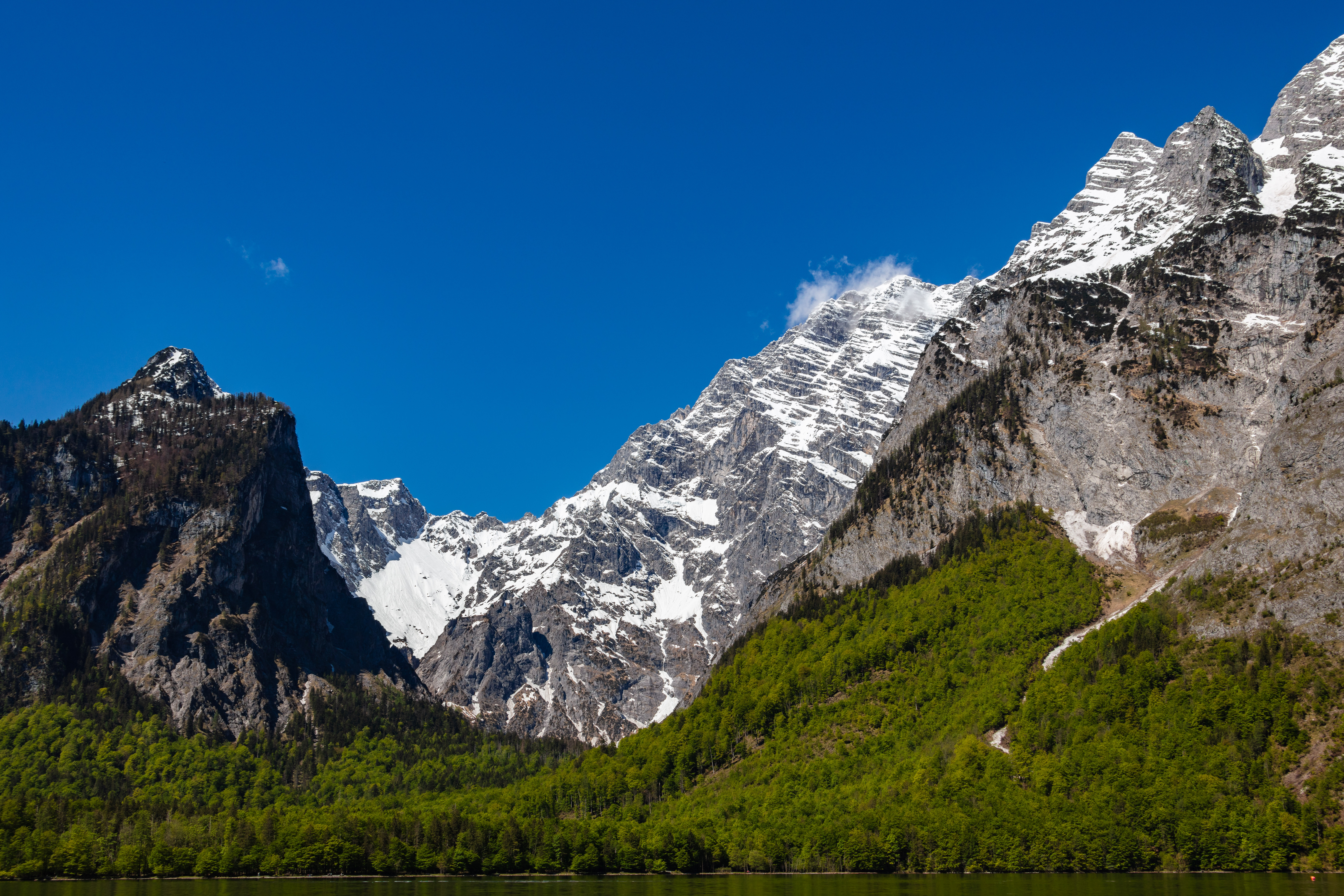 Berchtesgaden Alps, Germany